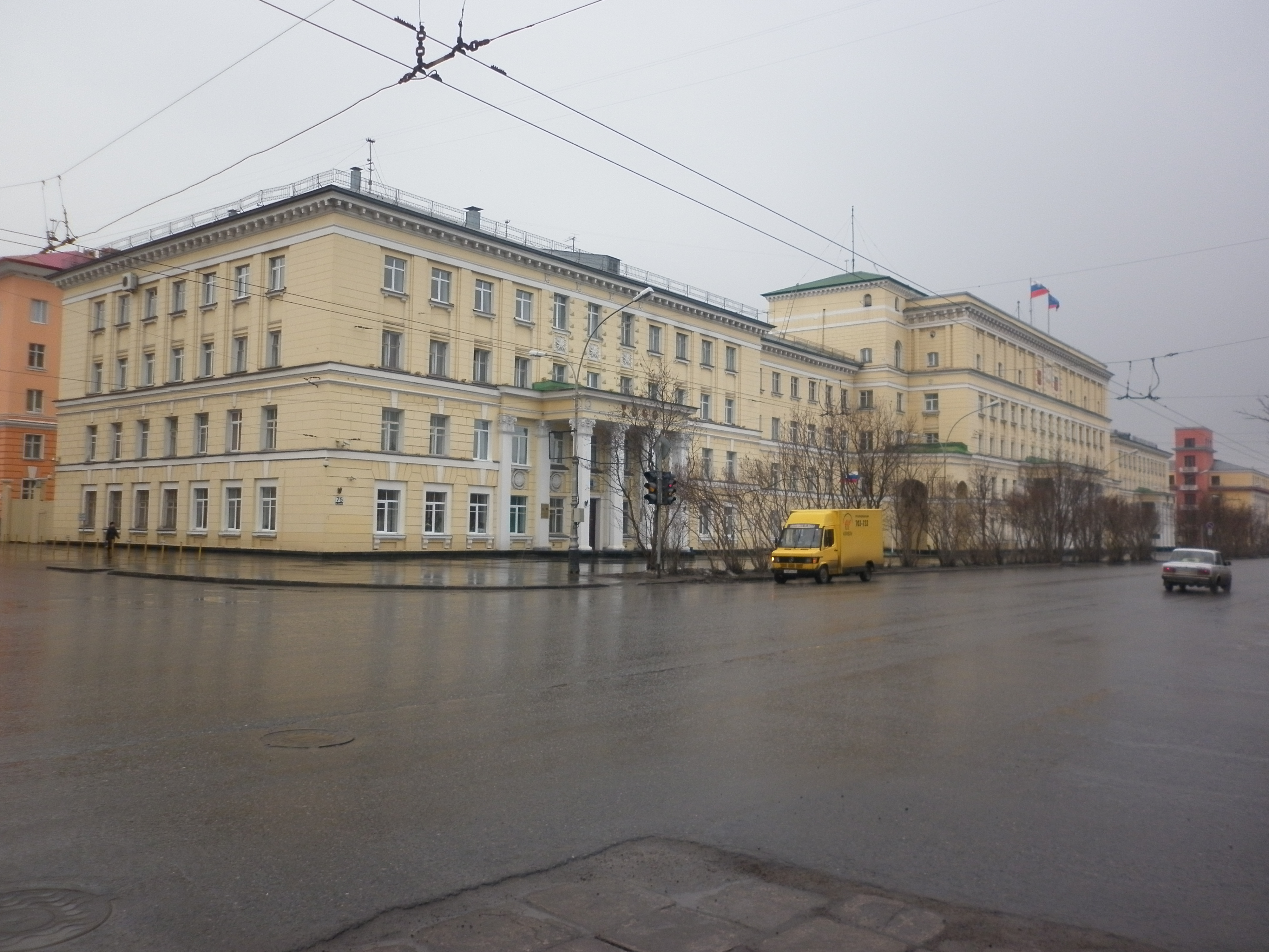 Мурманск